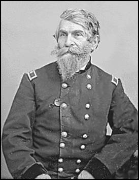 George Sears Greene was a civil engineer and a Union general during the American Civil War, 1860s photo